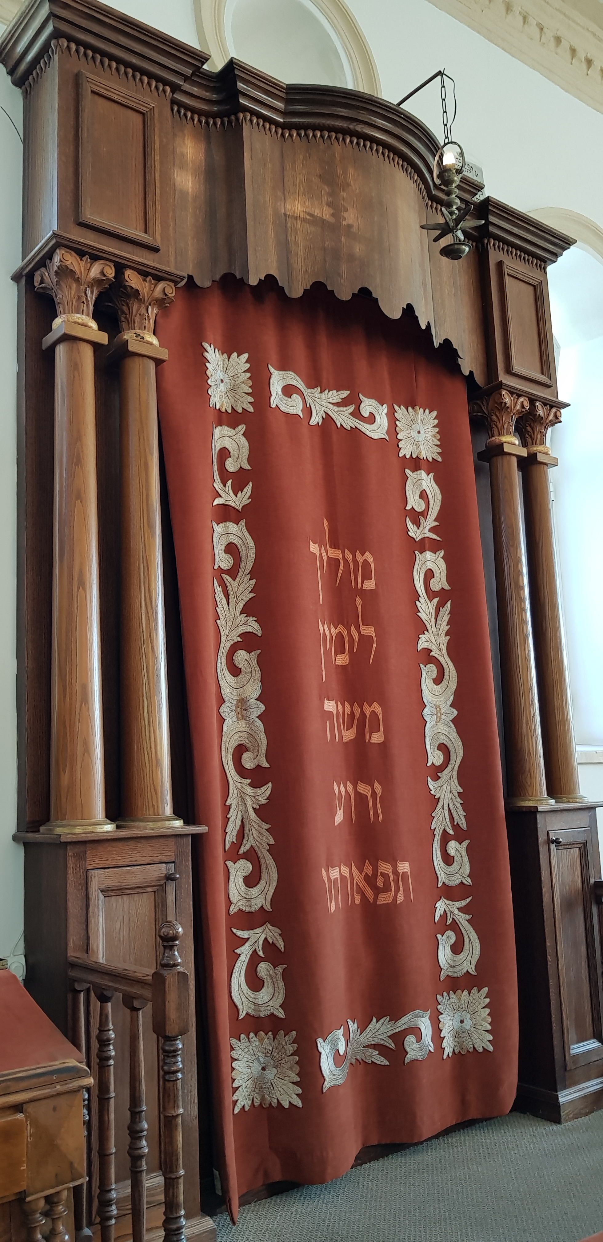 ארון הקודש העתיק מעץ